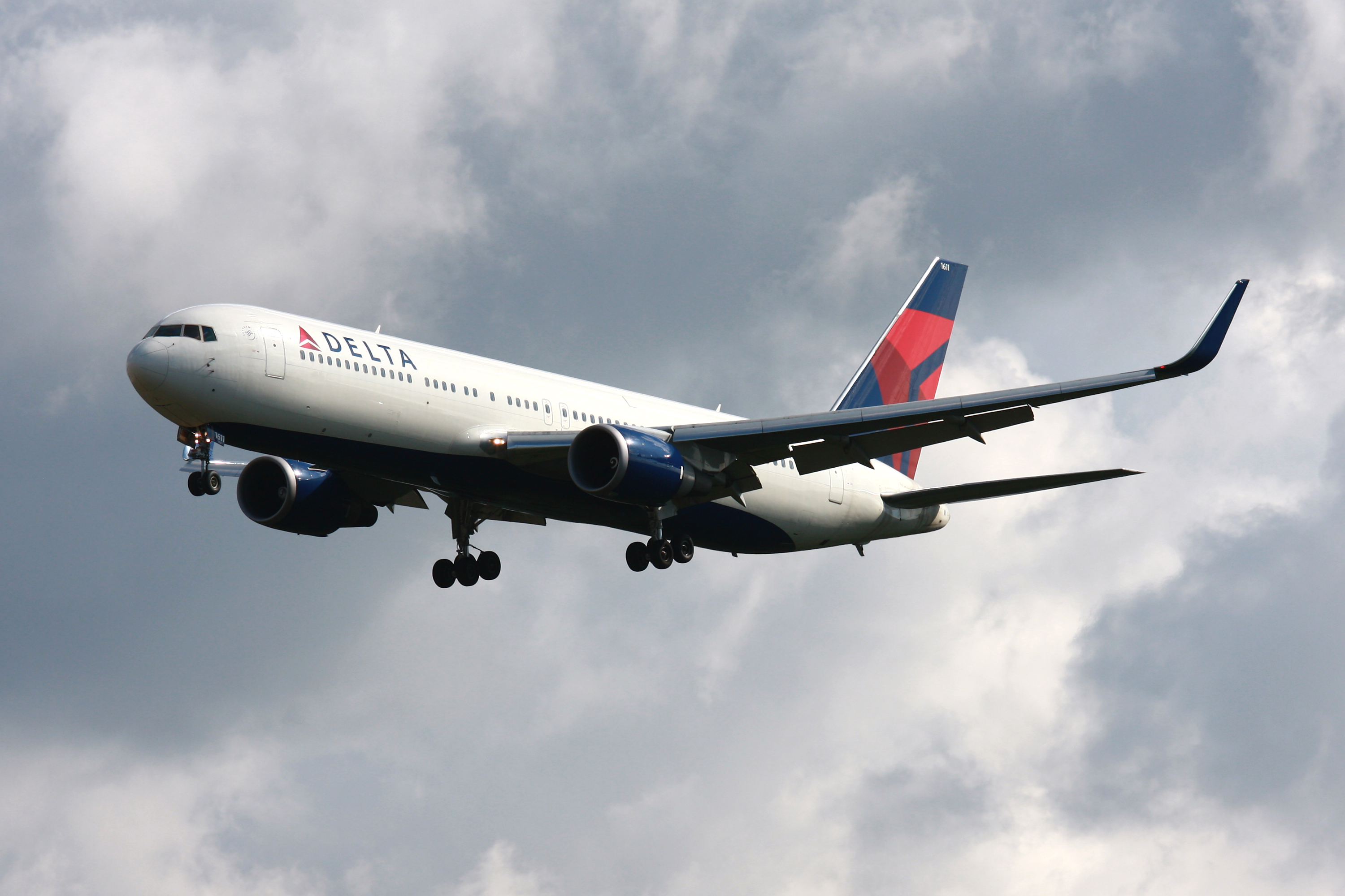 An Boeing 767-300 of Delta Air Lines landing at Frankfurt Airport